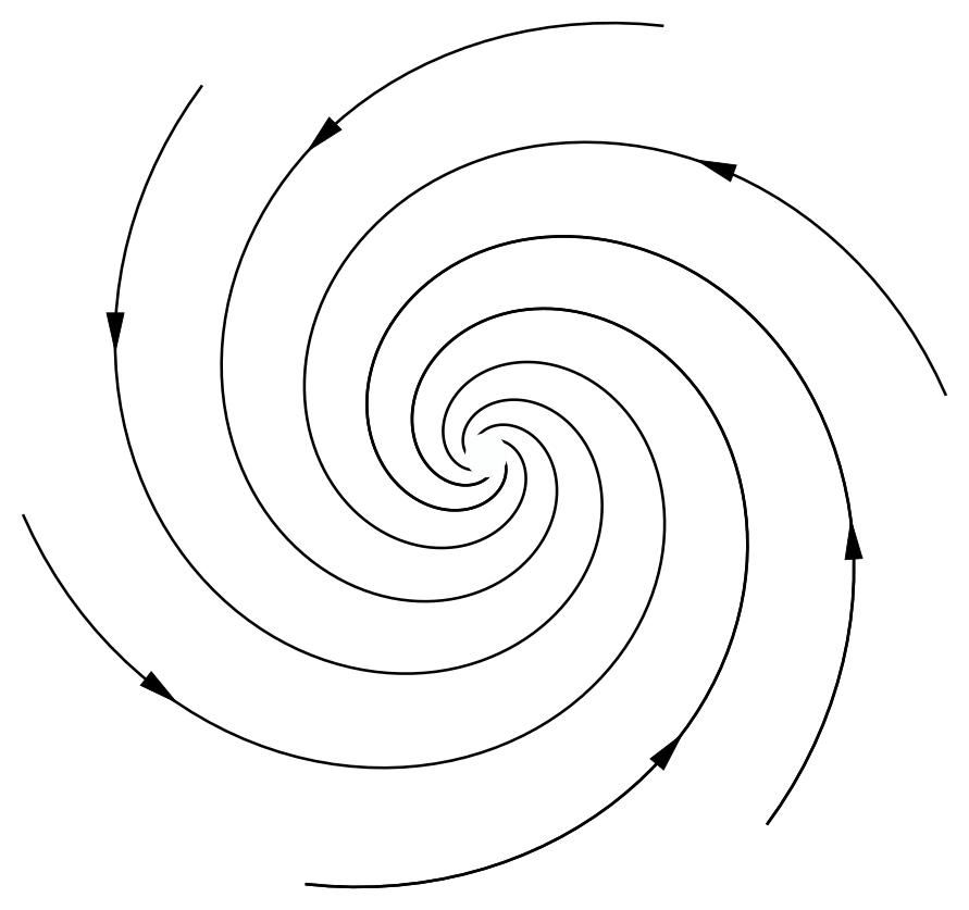 spirals